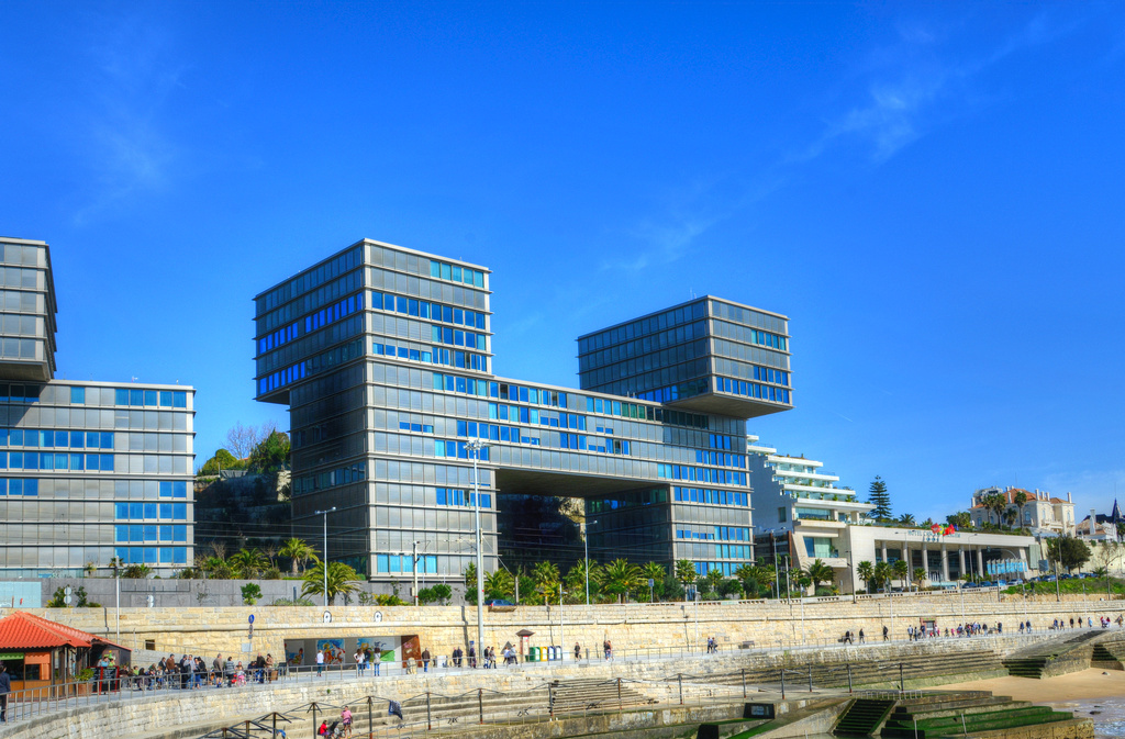 Estoril Sol Residence. Condos overlooking the beach in Estoril, Lisbon, Portugal. More Photos At